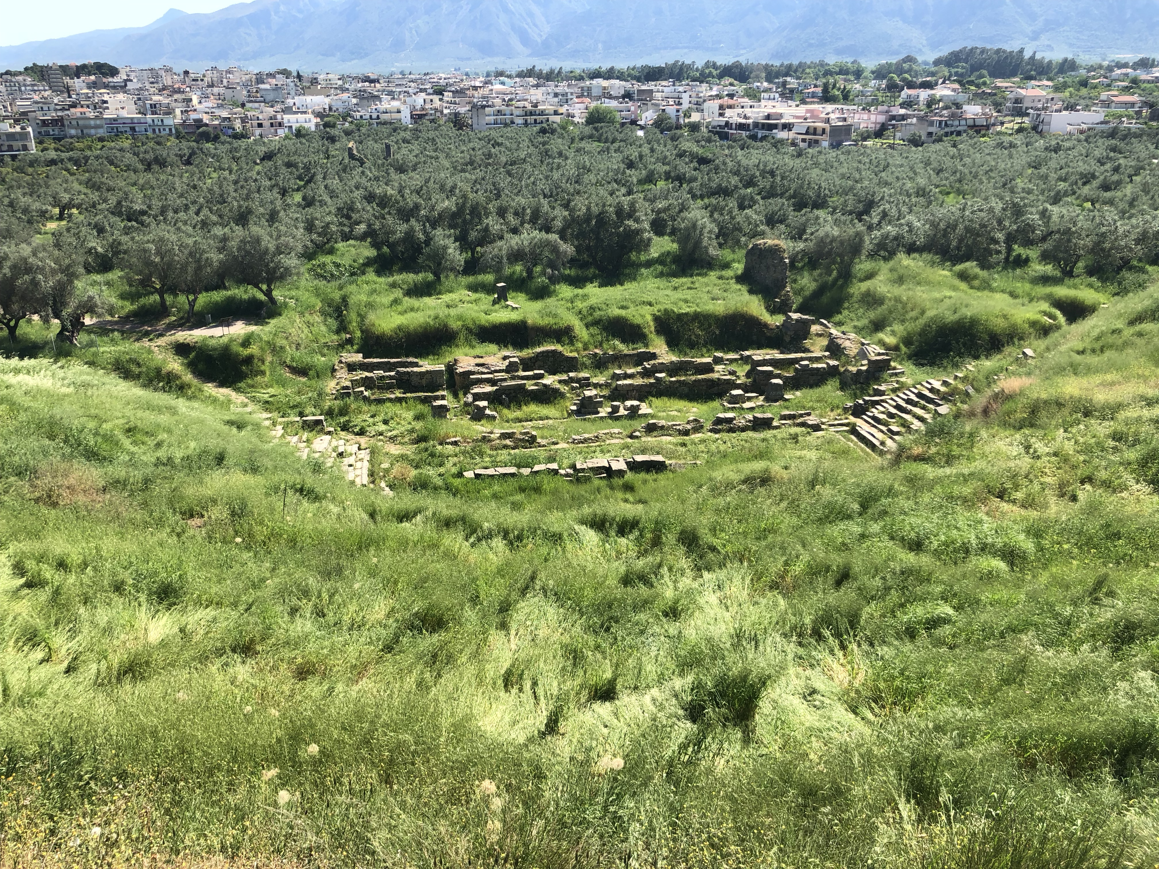 Ancient theatre of Sparta